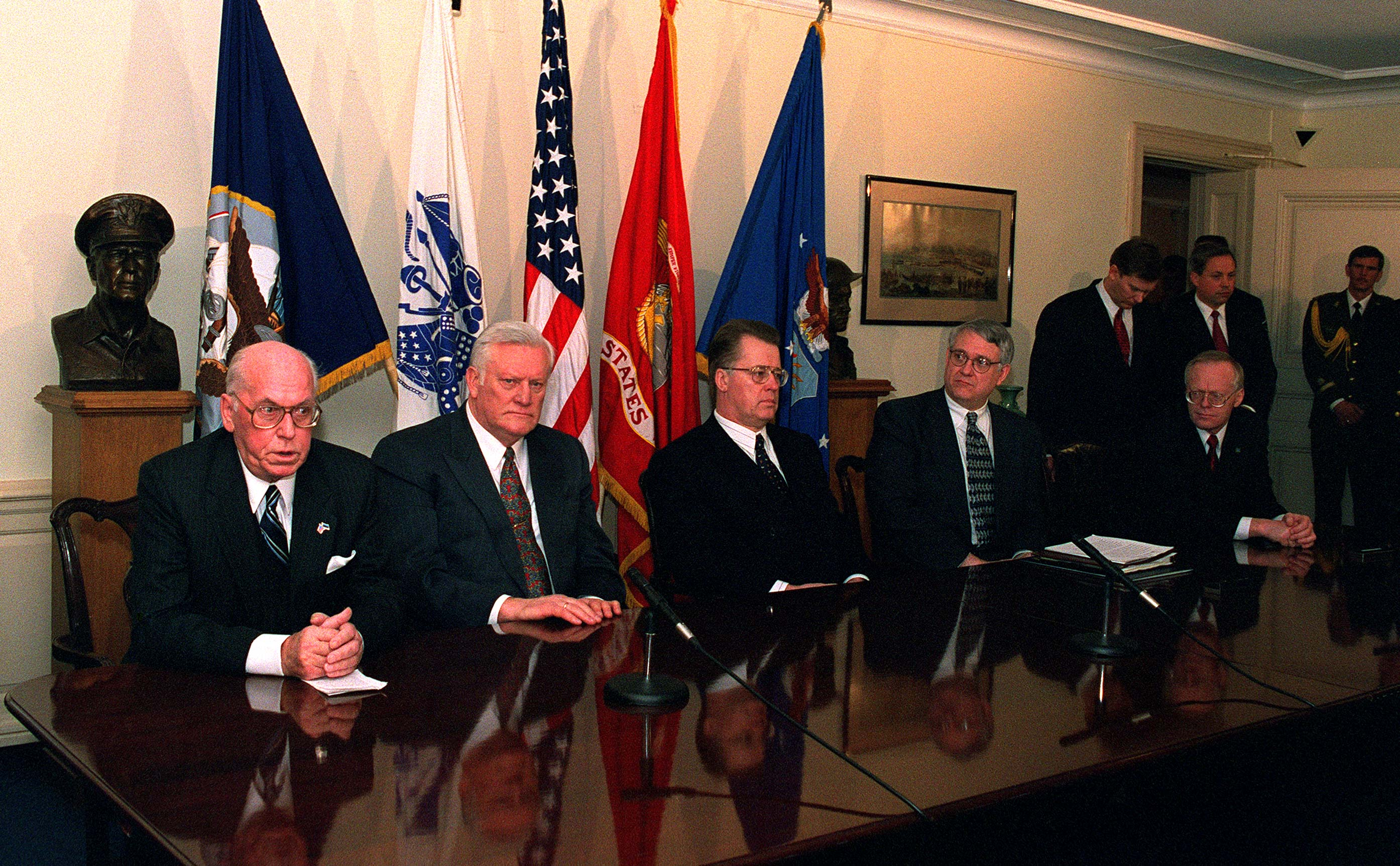 President Lennart Meri (left), of the Republic of Estonia, speaks to the press following a signing ceremony in the Pentagon between the United States and the Republic of Latvia of a General Agreement on the Security of Military Information on Jan. 15, 1998. From left to right: President Meri; President Algirdas Brazauskas, of the Republic of Lithuania; President Guntis Ulmanis, of the Republic of Latvia; Deputy Secretary of Defense John J. Hamre; and Minister of Defense Talavs Jundzis, of the Republic of Latvia.